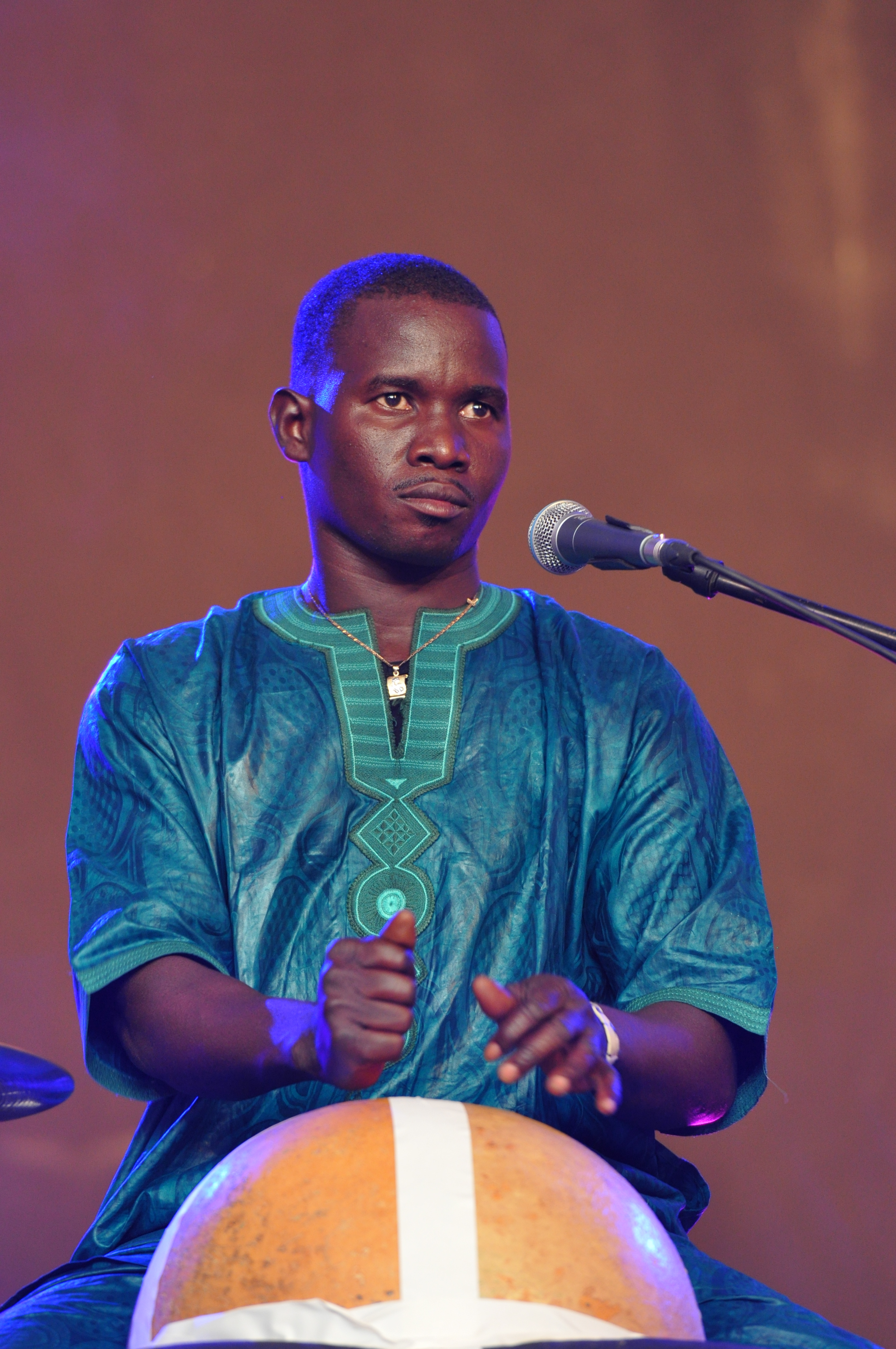 Bassekou Koyaté & Ngoni Ba (ML), appearance at the 12th World Music Festival "Horizonte" 2014 at the fortress of Ehrenbreitstein, Koblenz (Germany)